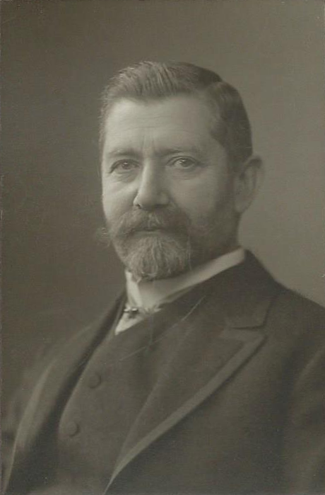 Portrait of the mathematician Alexander Witting (about 1915)